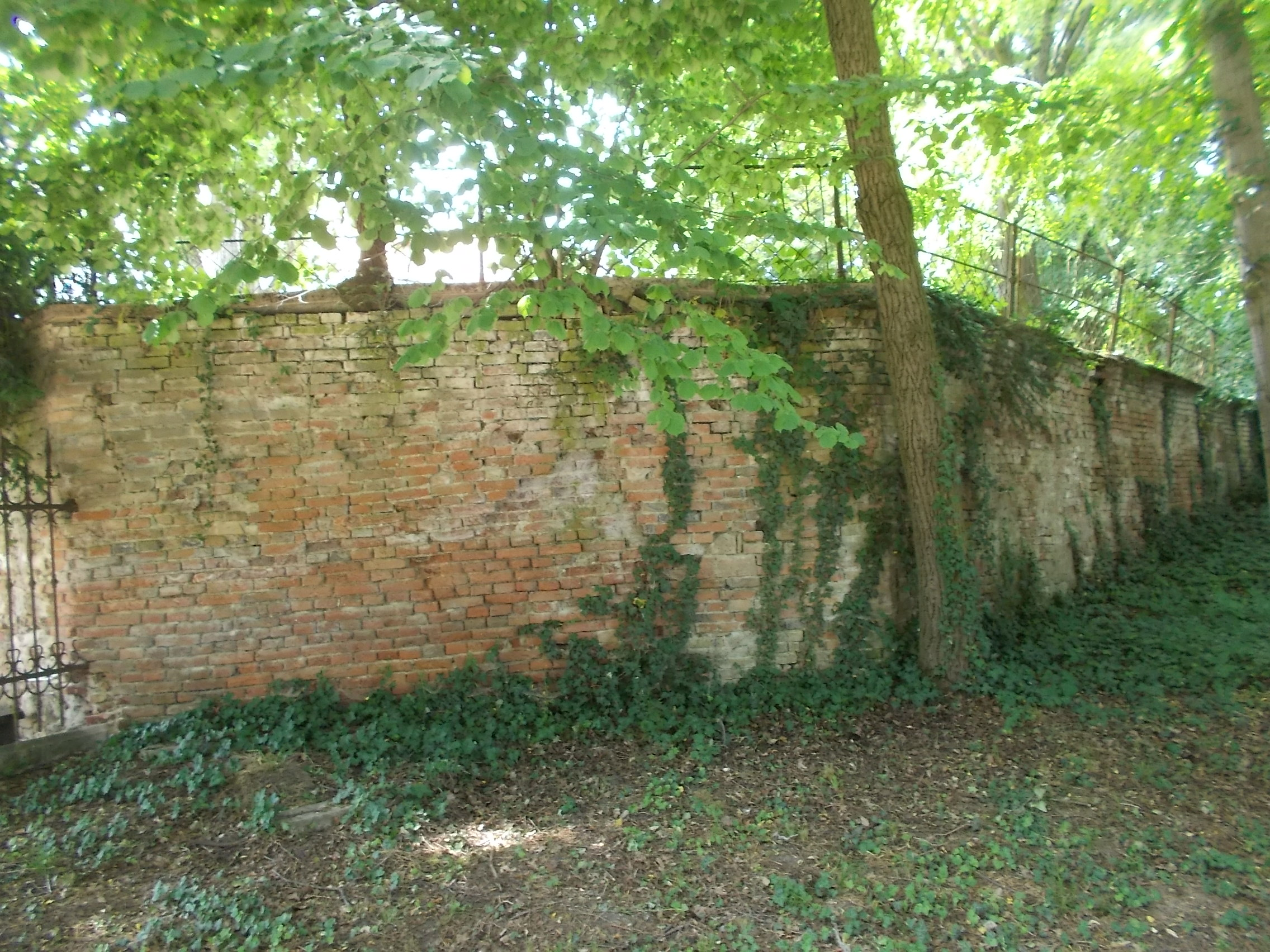 Brick fence at the 'pre courtyard' part of the Majk Hermitage, Majkpuszta, Oroszlány, Komárom-Esztergom County.